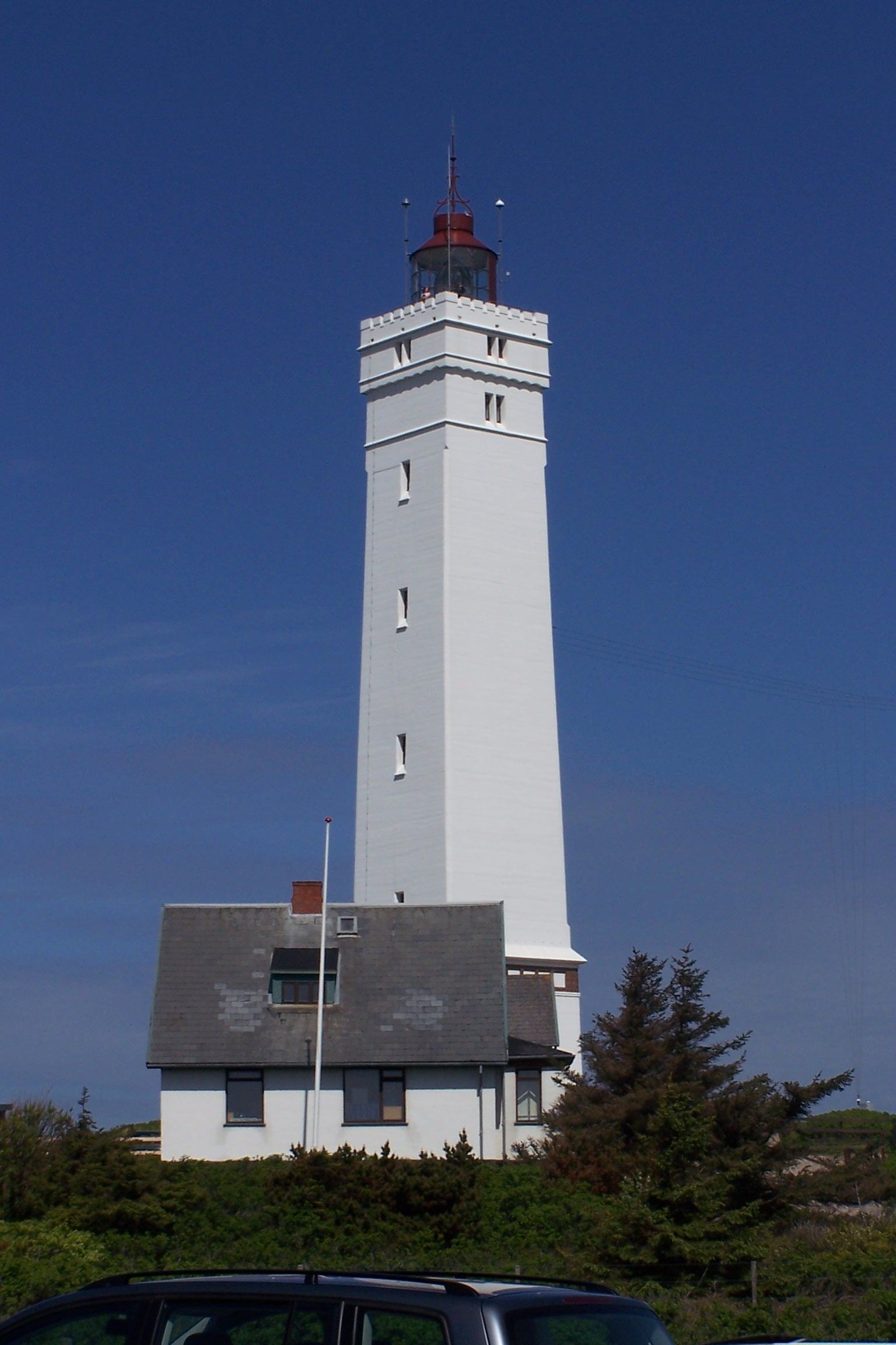 Blåvand-Oksby in Denmark, lighthouse Photo by Cnyborg, May 2005